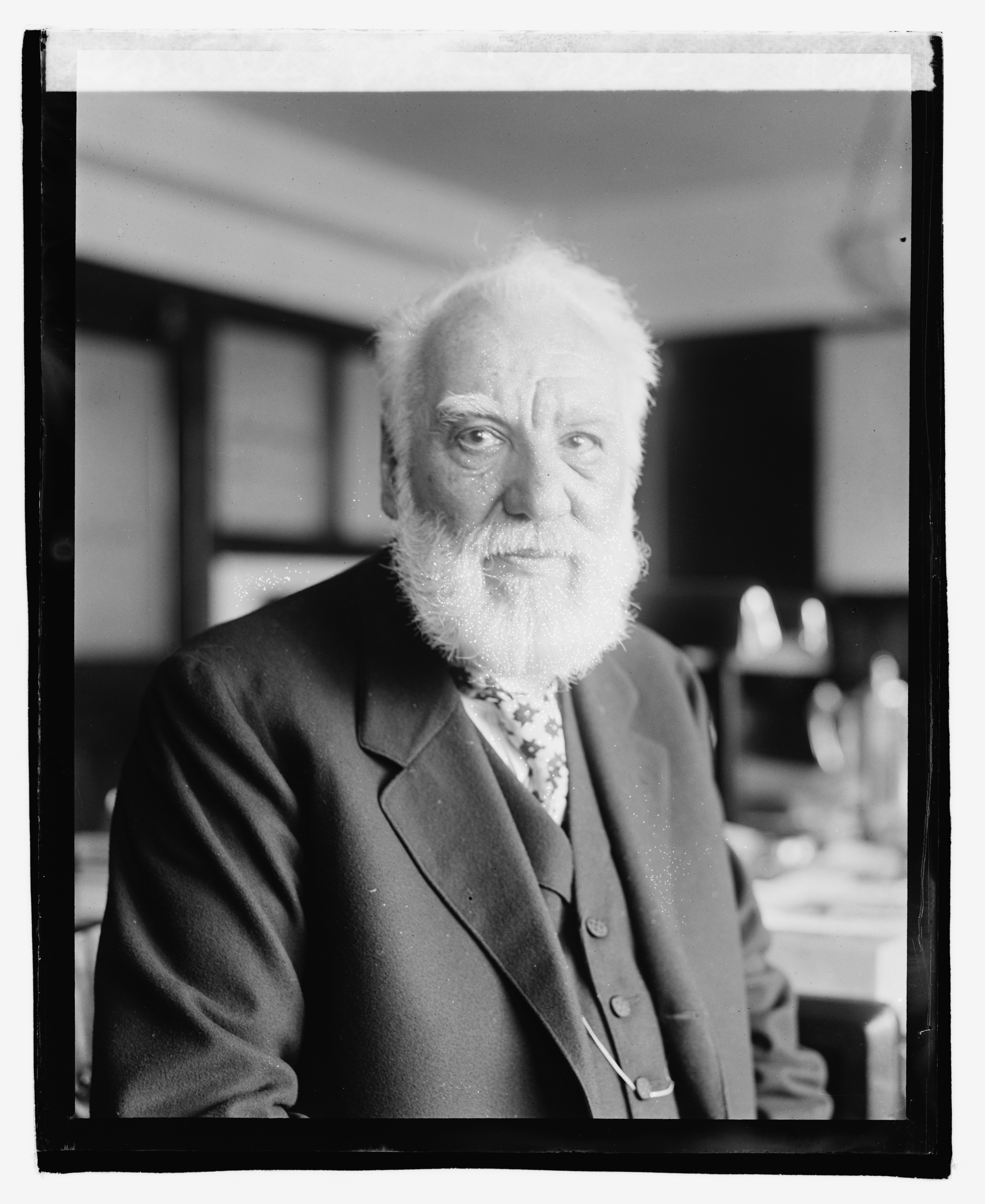 Title: Alex. Graham Bell Abstract/medium: National Photo Company Collection (Library of Congress) Physical description: 1 negative